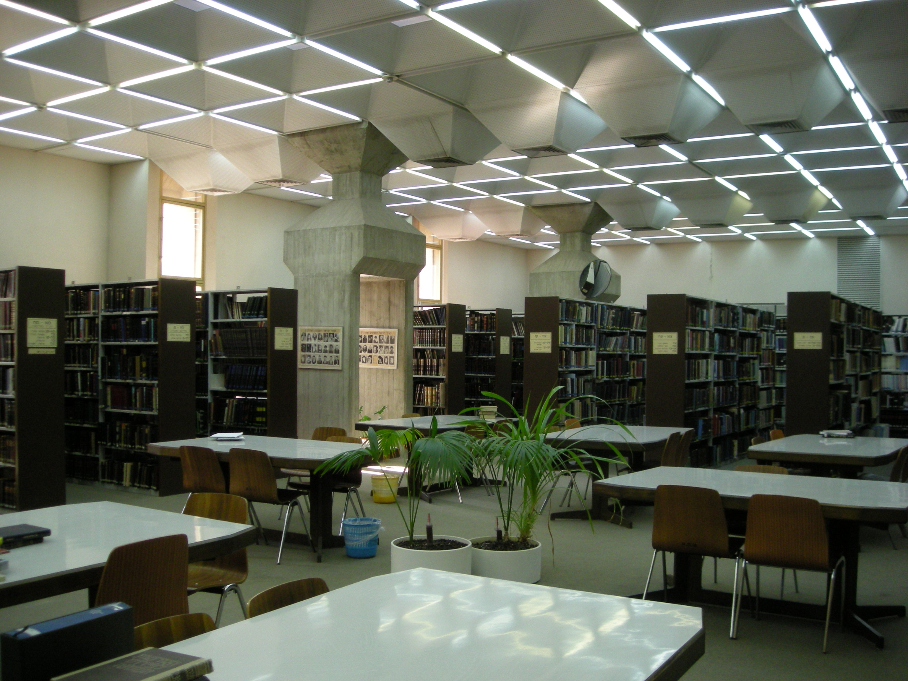 Rambam library in Beit Ariela, Tel-Aviv